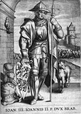 John III of Brabant